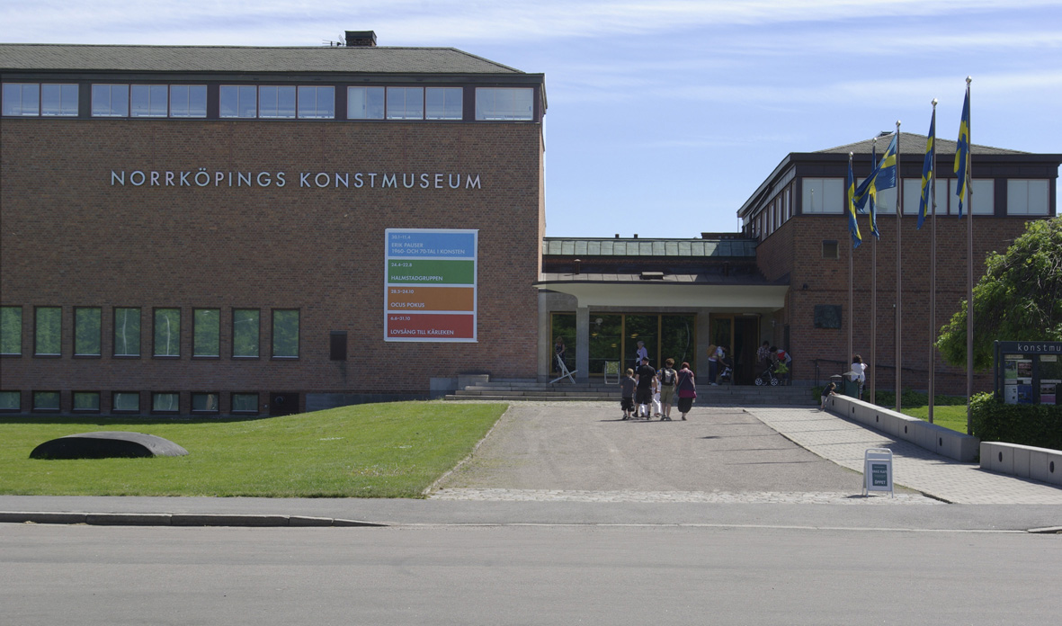 Norrkoping Art Museum. View position Kristinaplatsen, Norrkoping, Sweden.